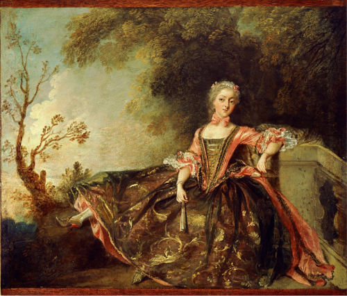 Marie Sallé by Nicolas Lancret (1690-1743)